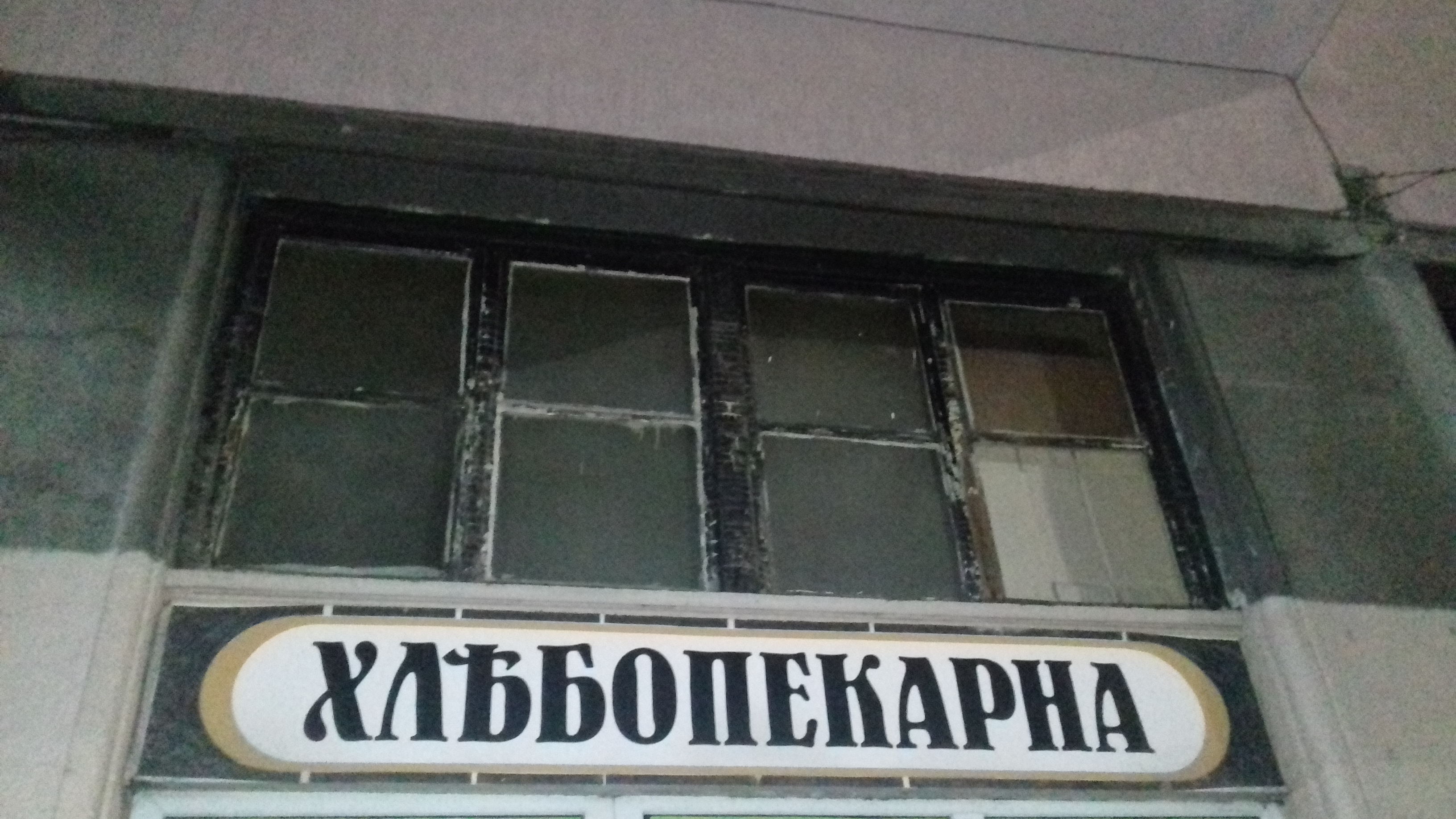 Bulgarian Bakery Firm Sign with Yat